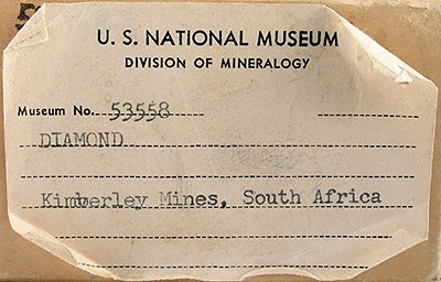 Diamond Locality: Kimberley Mine, Kimberley, Northern Cape Province, South Africa (Locality at ) Size: thumbnail, 1.6 x 1.5 x 1.5 cm (weight 18.7 carats) Diamond (18.7 carats) This is one of those few rare diamonds that today can be dated and located to the original Kimberley Mine itself, almost certainly dating to the early 1900s and perhaps further. It went to the Smithsonian in a collection prior to WWI, I am told, and then was traded out to dealer Walt Lidstrom in the 1960s. It stayed with his family in his personal collection of thumbnails and toenails, which they kept long after he passed away, selling only a few years ago. Bill Pinch snagged this one immediately, realizing its scientific and historic importance as it had the valid label and documentation therefore to show it as a Kimberly Mine piece and not just a diamond from the Kimberly Mining Company's many later mines.